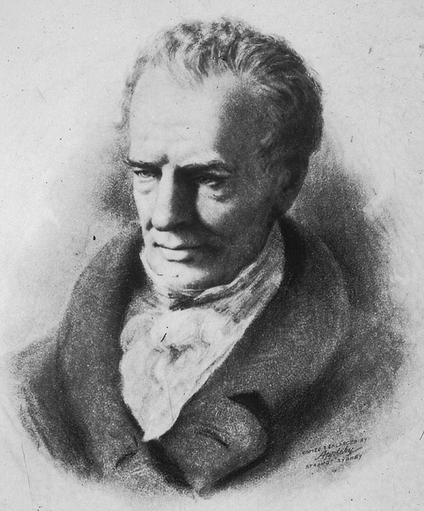 A portrait of William Sharp Macleay, British naturalist and philosopher.